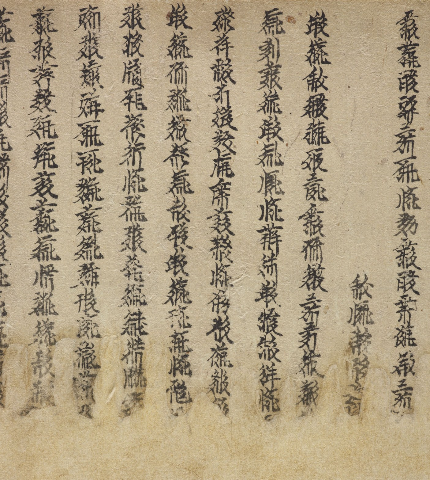 12th or 13th century Tangut manuscript, ink on paper, scroll. Section of a unique manuscript scroll of the Tangut translation of a Chinese military treatise ascribed to Zhuge Liang, entitled the "General's Garden". The part of the manuscript shown is the start of Section 37, the last section of the text.